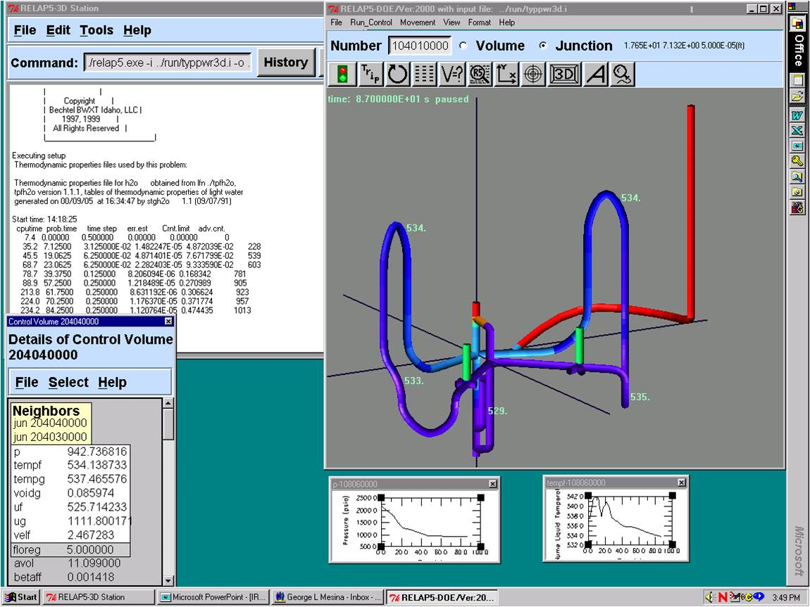 Desktop screen capture of RELAP5-3D. This shows the void fraction (mixture of liquid and gaseous water by weight) as a number between 0 and 1. Blue-purple represent 100% water while red represents 100% steam and the rainbow colors in-between show the composition of the two-phase mixture. This also shows that the user can place a title (“Typpwr3d.i Surface …) over top of the image. It also shows that the auxillary widgets (such as plots and updating tables) can be moved onto the desktop.